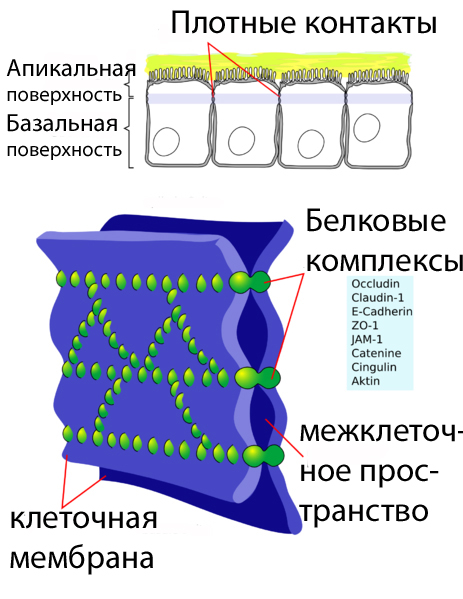 This file was taken from german wikipedia article (Blut-Hirn-Schranke) which was made under free licence. I changed german words in russian with Photoshop